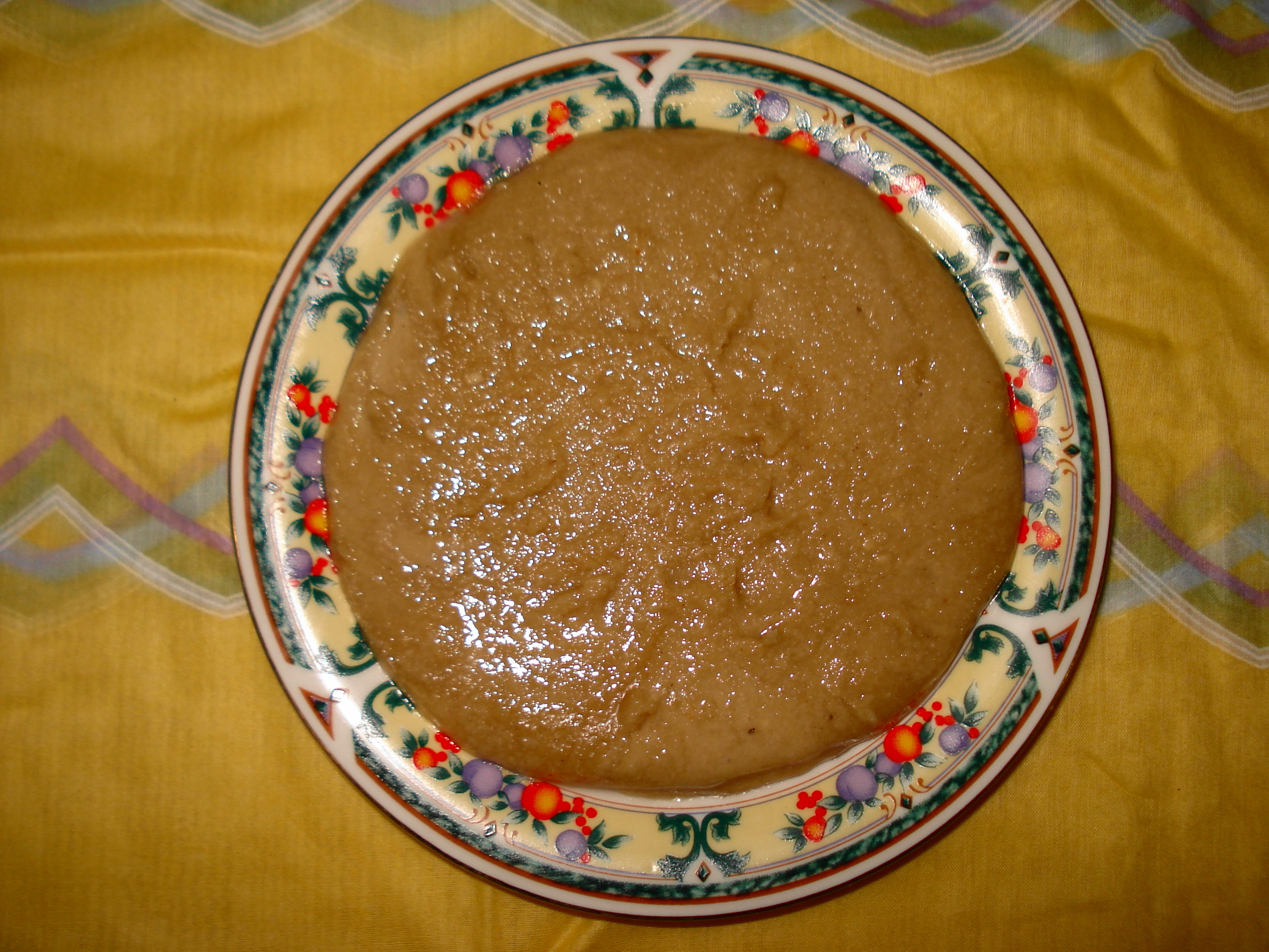 Tahini